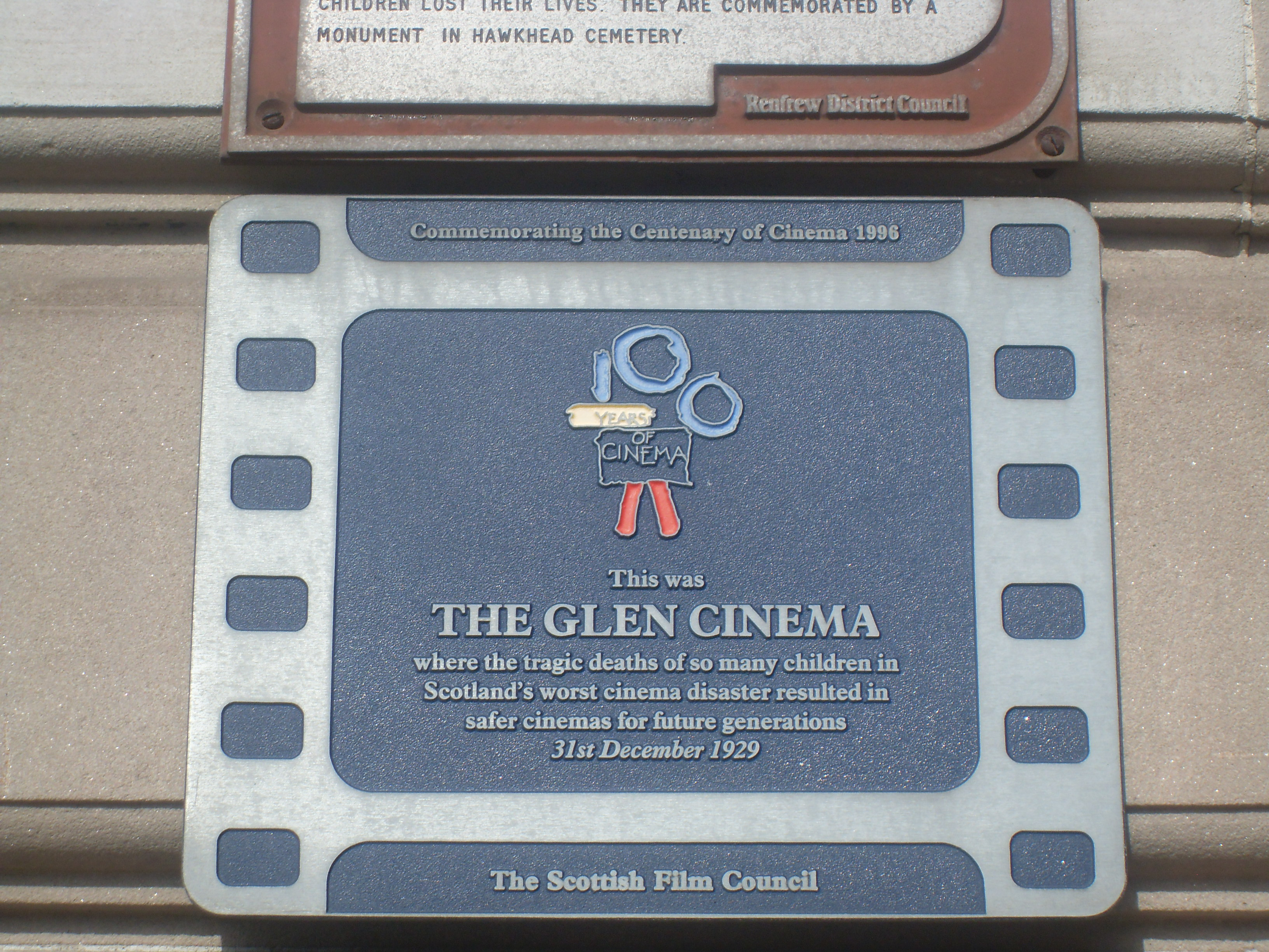 one of 2 Plaques about the Glen Cinema Disaster in Paisley